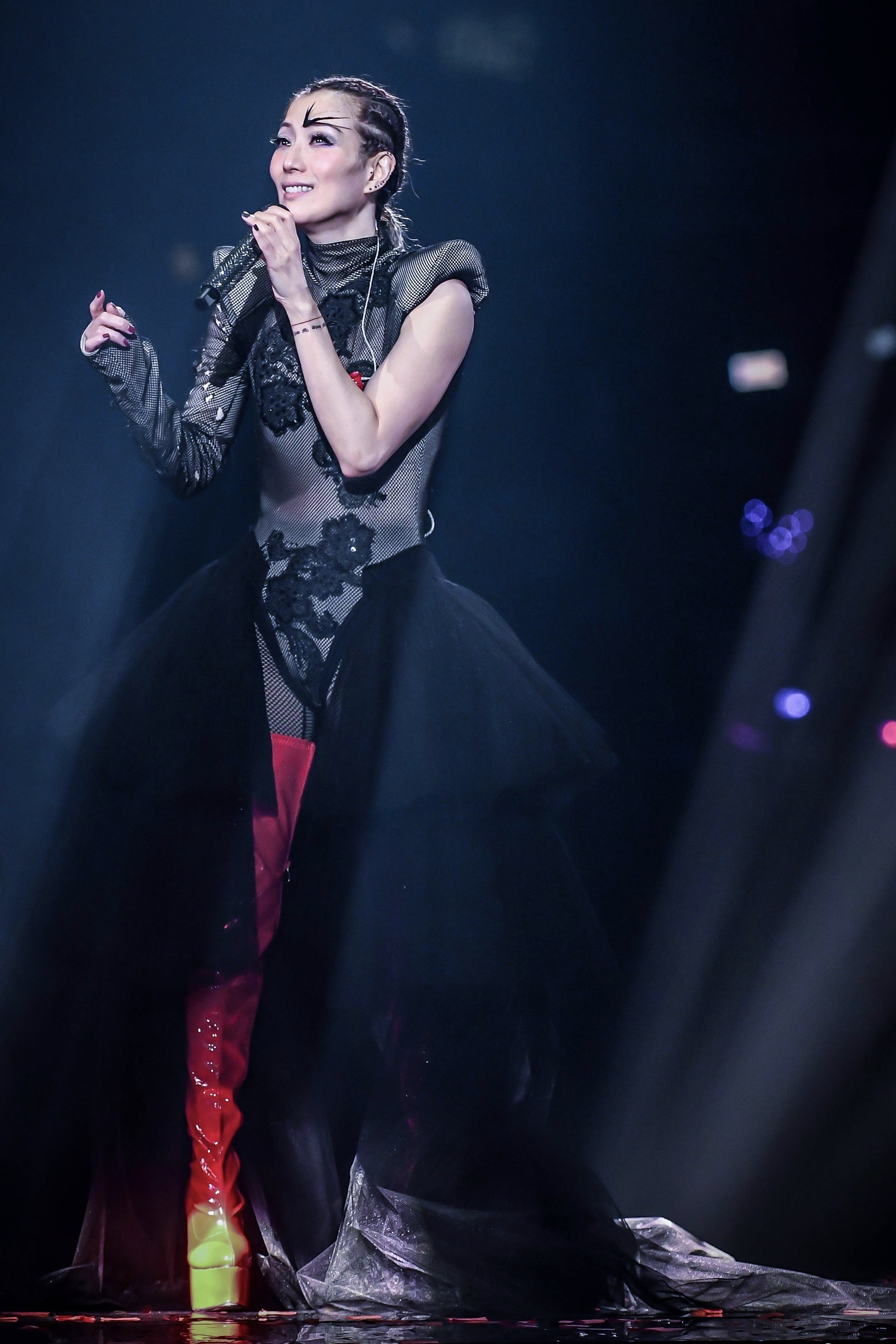 FOLLOWMi Sammi Cheng World Tour Live in Hong Kong 2019